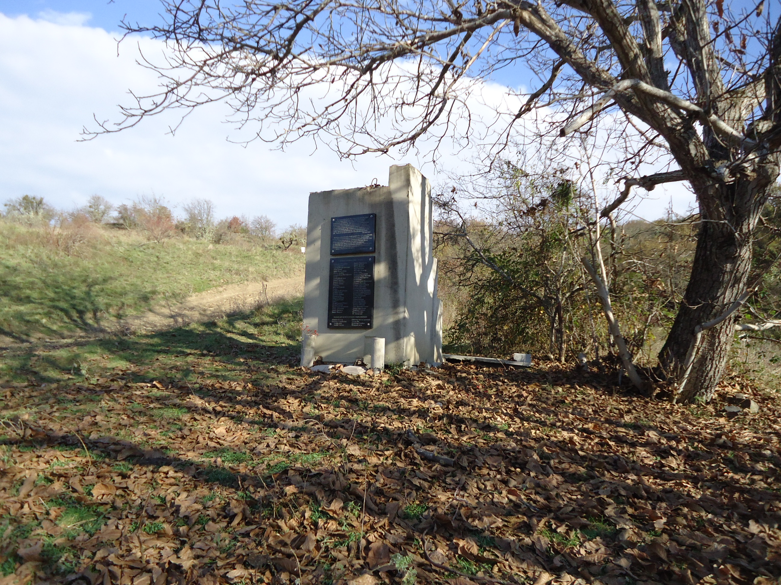 Urochishche (site of the former village) Shelkovichnoe, Bakhchisarai region, Crimea.